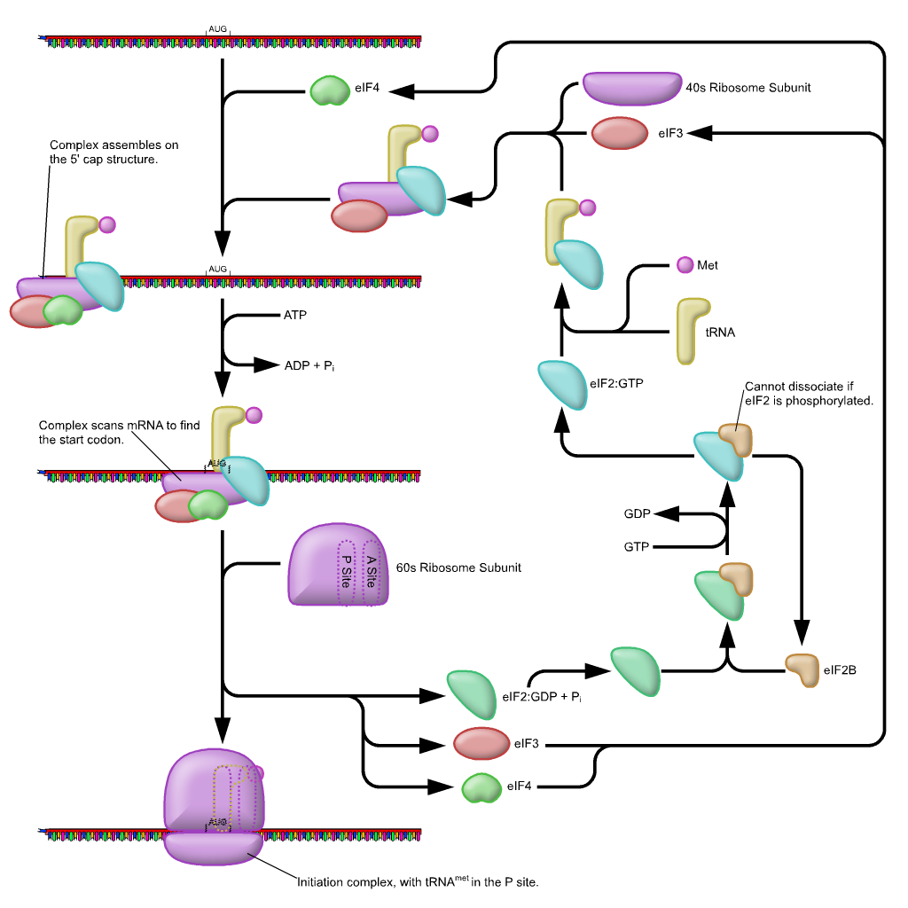 By Richard Wheeler (Zephyris) 2005; The process of initiation of translation in eukaryotes.